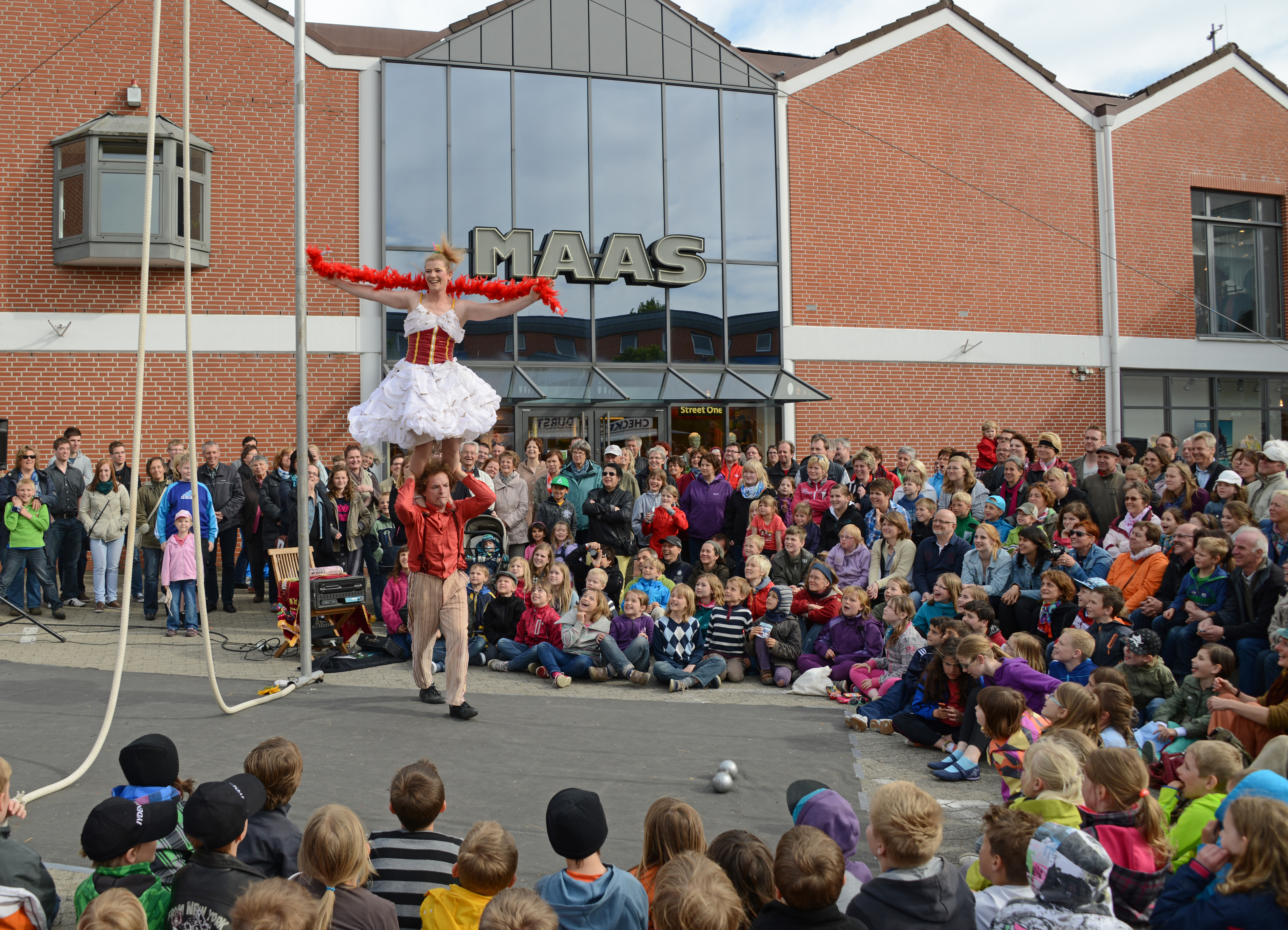 Streetart-Festival Piazetta in Bassum/Germany